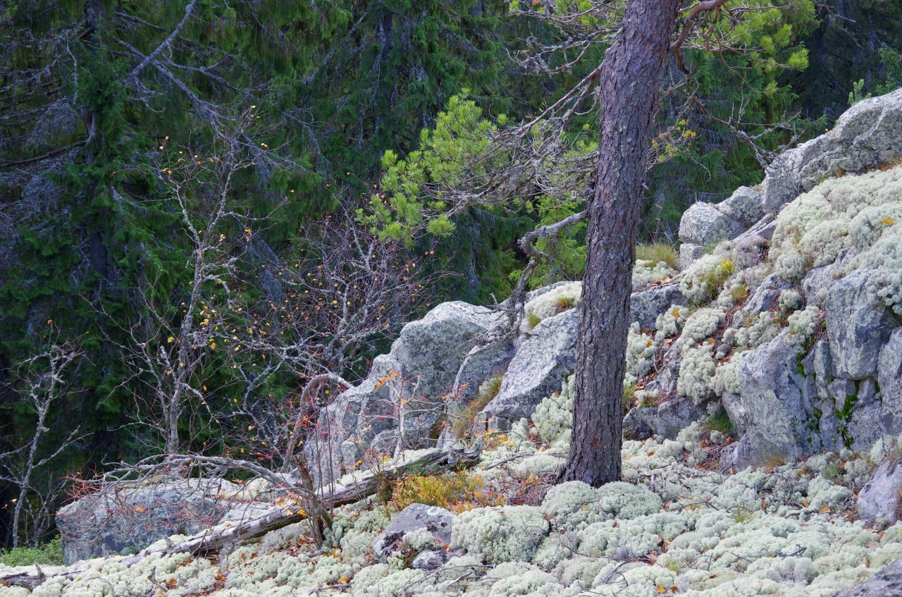 Lichen and rock in Koli Hill in Koli National Park, North Karelia, Finland